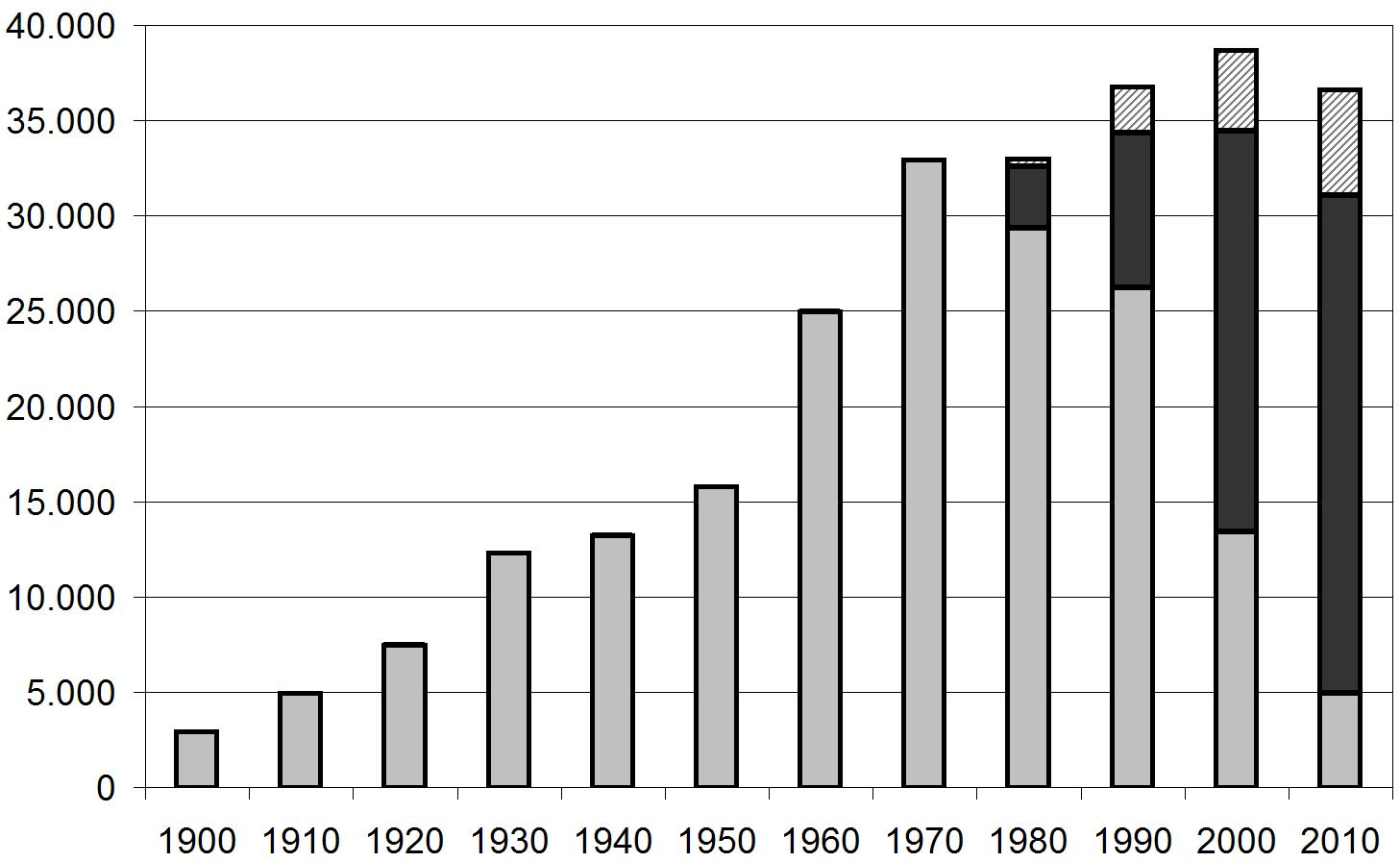 Population of Calumet City from 1900 until 2010. Based on US Census data. Bars show white (light grey bar), black (dark bar) and hispanic (diagonal pattern) population of Calumet City, Illinois. Before 1970, no black population number is given, as it was a negligibly small number. Data (Year, Total population, White, Black, Hispanic): 1900, 2.935 1910, 4.948 1920, 7.492 1930, 12.298 1940, 13.241 1950, 15.799 1960, 25.000 1970, 32.956, 32.929, 27 1980, 33.000, 29.370, 3.200 1990, 37.840, 26.248, 8.091, 2.426 2000, 39.071, 13.421, 21.043, 4.242 2010, 37.042, 4.927, 26.152, 5.556 (Census estimate)